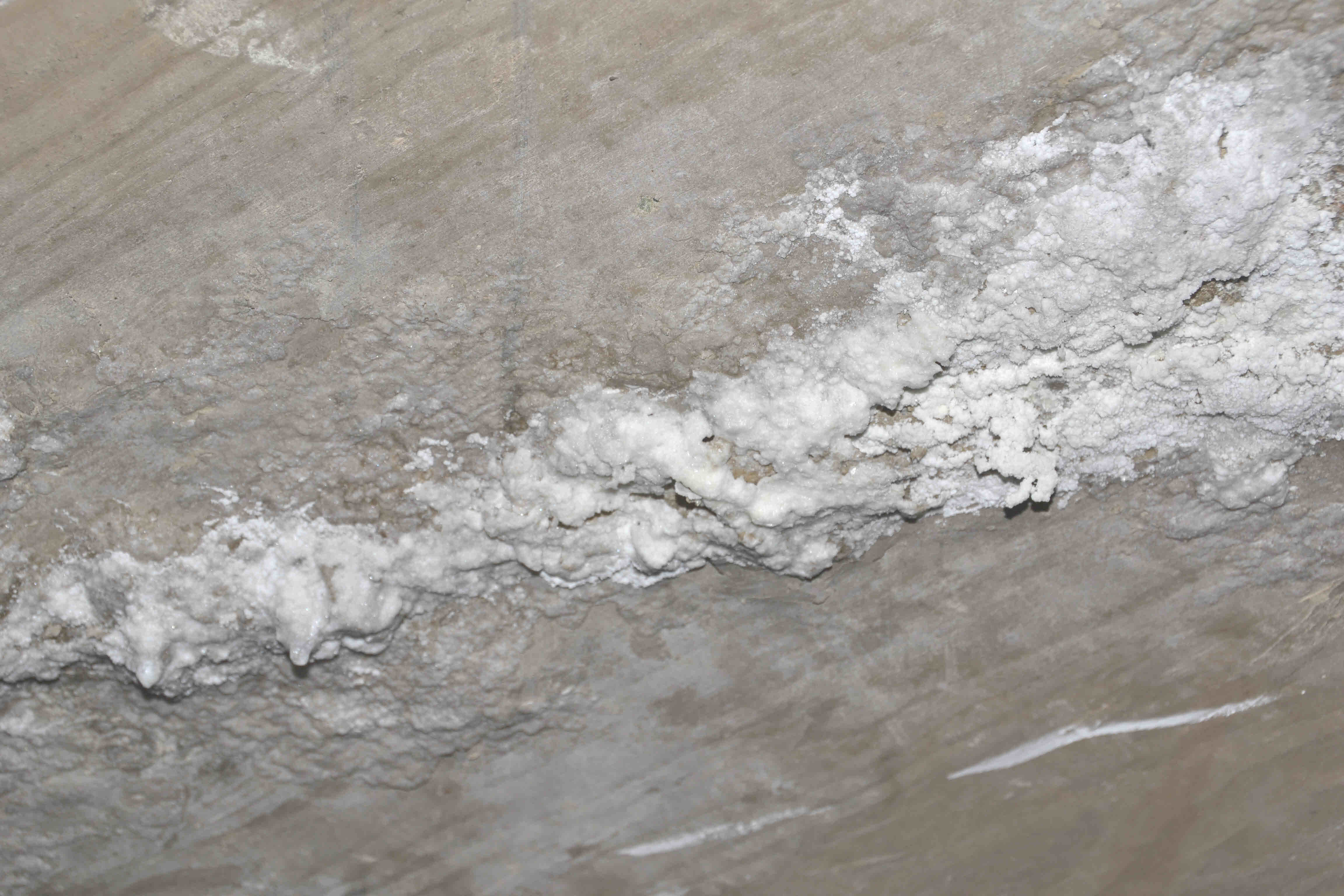 Secondary efflorescence, washing out components of cement stone, thus weakening the concrete. In this case, remedial work has already been done once, as can be seen in the concrete patches. But the cause for this "concrete osteoporosis" was not fixed, which means that the damage continues. It is possible to prevent this problem through a better concrete mix design as well as through the use of an impervious, covalent barrier on top. This is the bottom of a slab as seen from the second level of parking in a hotel in Ottawa, Ontario, Canada. Cars with road salt drive in on the upper level, the salty water comes off the cars and then wash out minerals from the cement stone, which winds up as ugly-looking tumors below. The tumor analogy is apt, because, if unchecked, this process will continue to weaken the concrete. In primary efflorescence, one only loses matter that odes not get bound in the cement stone. In secondary efflorescence, one loses matter that originally made the concrete strong.